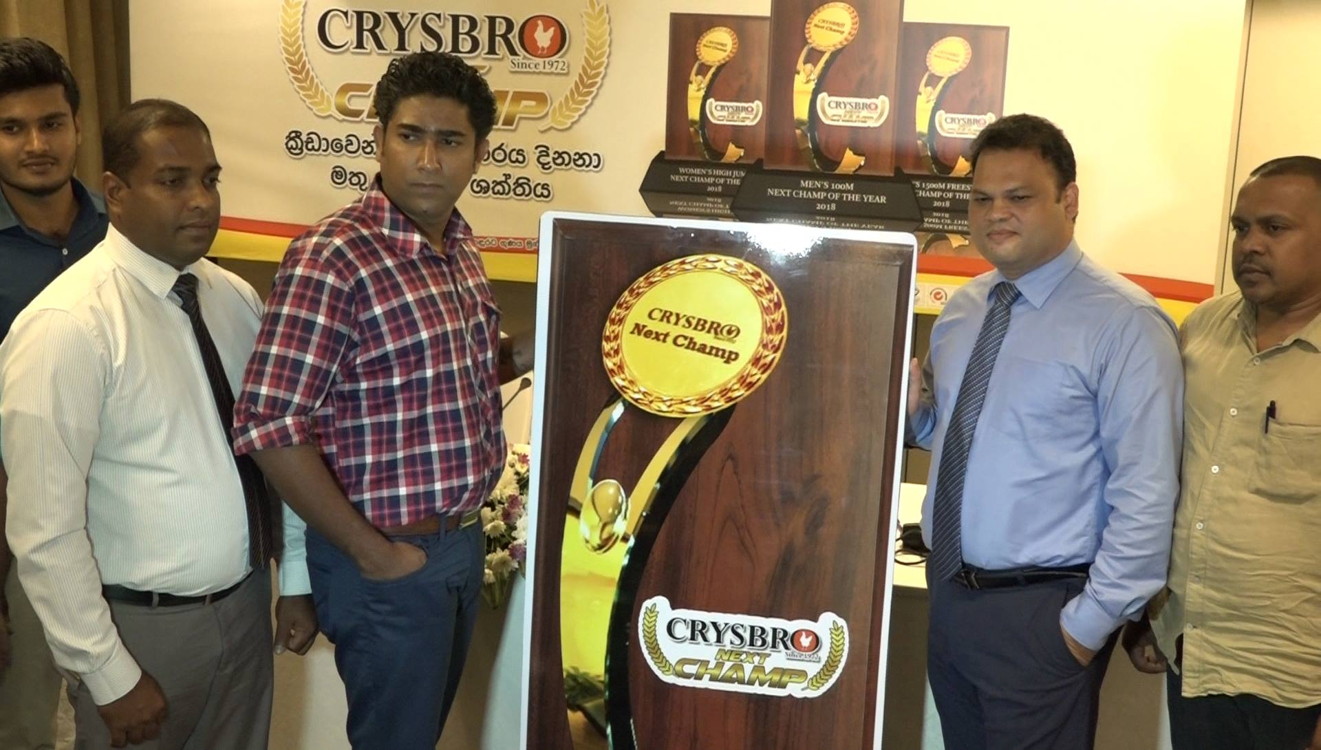 Udara at a Crysbro Branding event